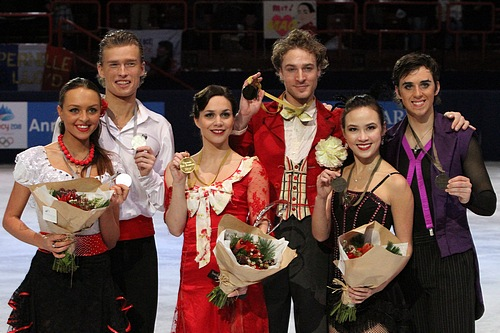 Ekaterina Riazanova / Ilia Tkachenko (2), Nathalie Péchalat / Fabian Bourzat (1), Madison Chock / Greg Zuerlein (2) at the 2010 Trophy Eric Bompard.